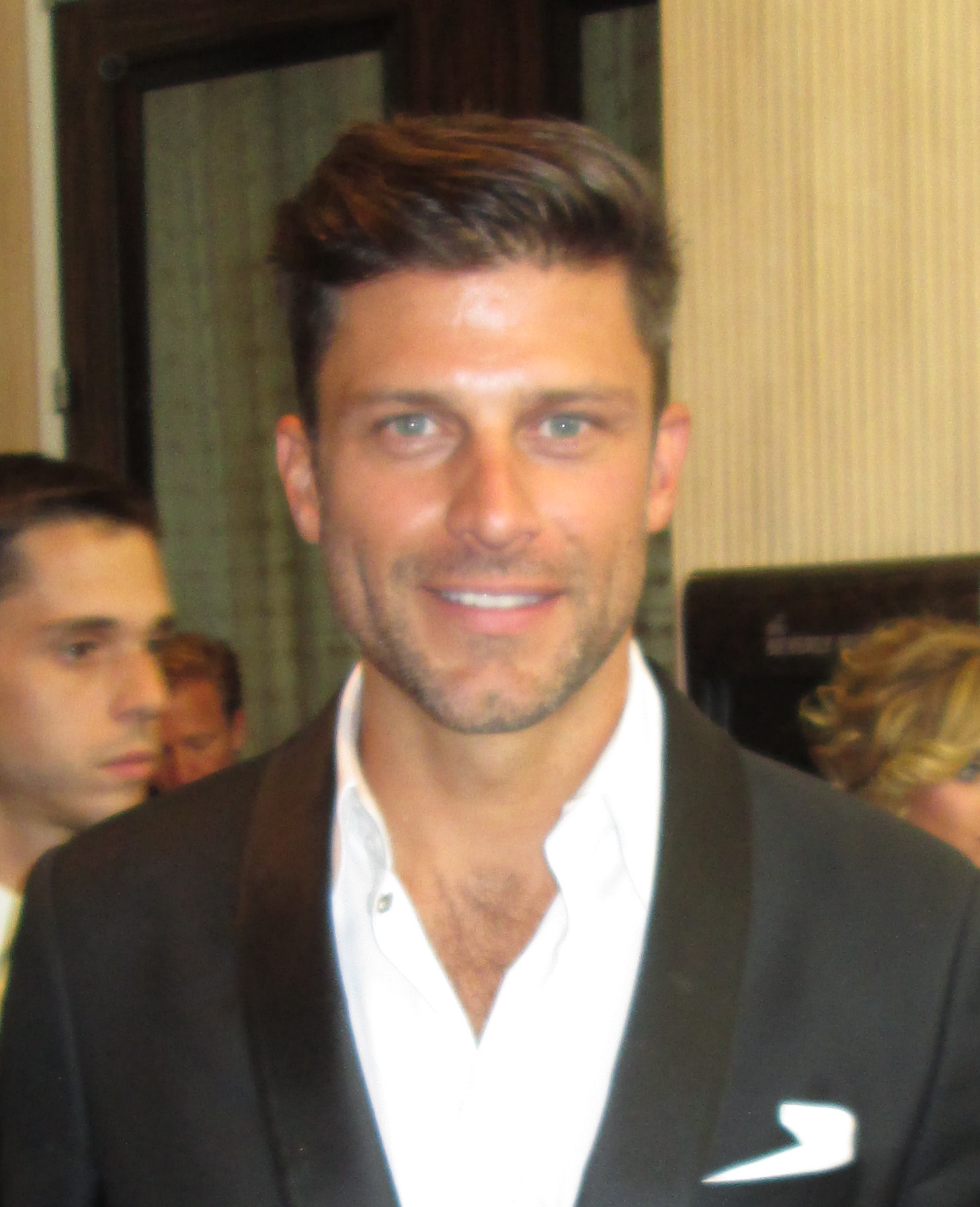 Greg Vaughan at 2014 Daytime Emmys